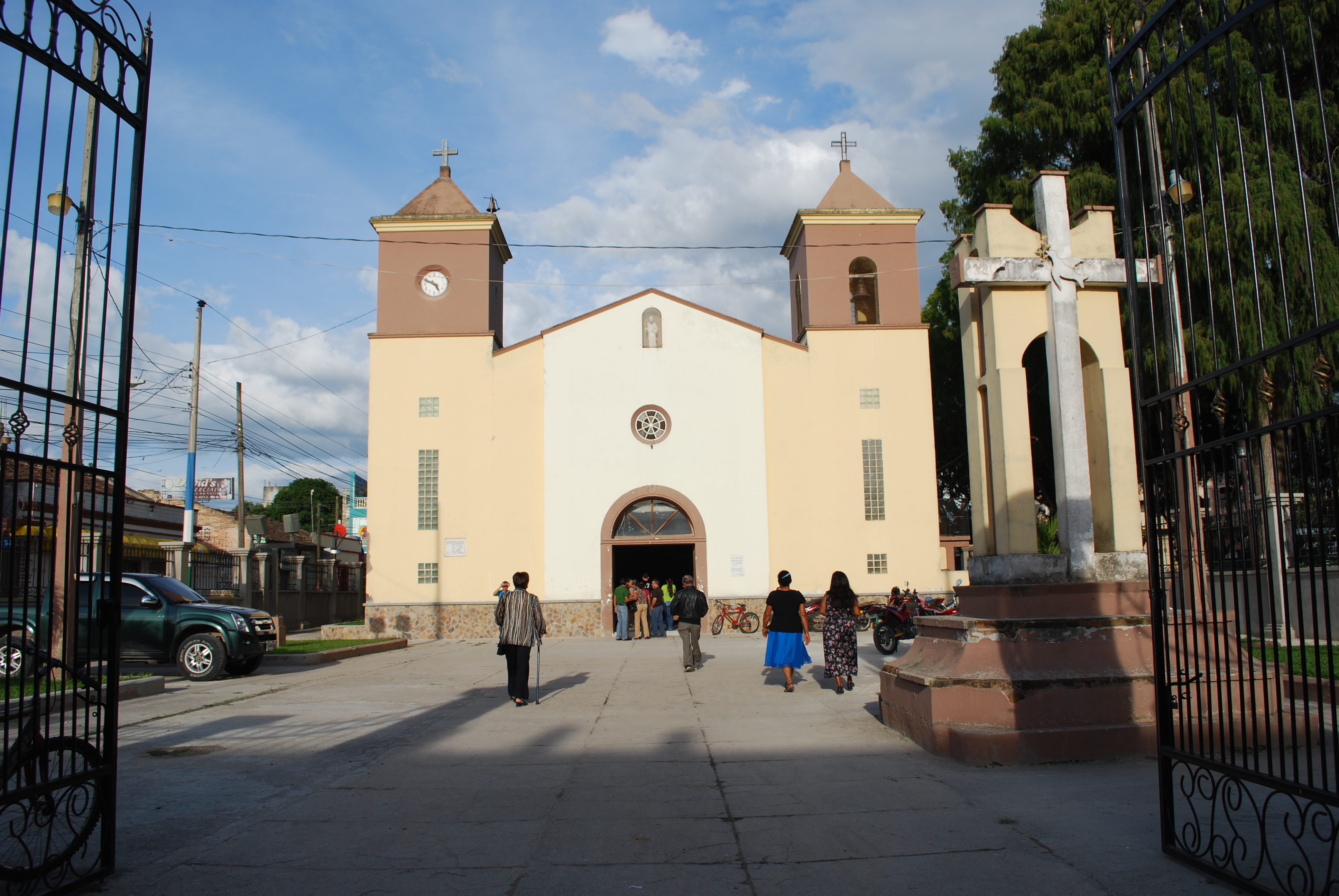 San Pablo church in Siguatepeque, Honduras